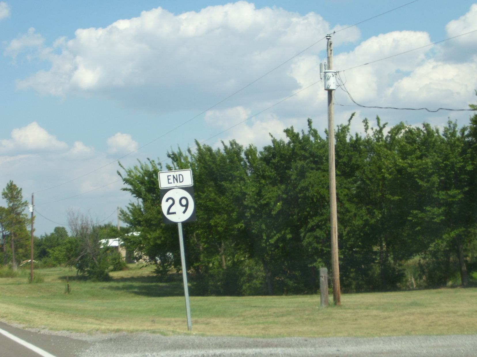 State Highway 29's eastern end shield approaching U.S. Route 177 east of Wynnewood, Oklahoma.